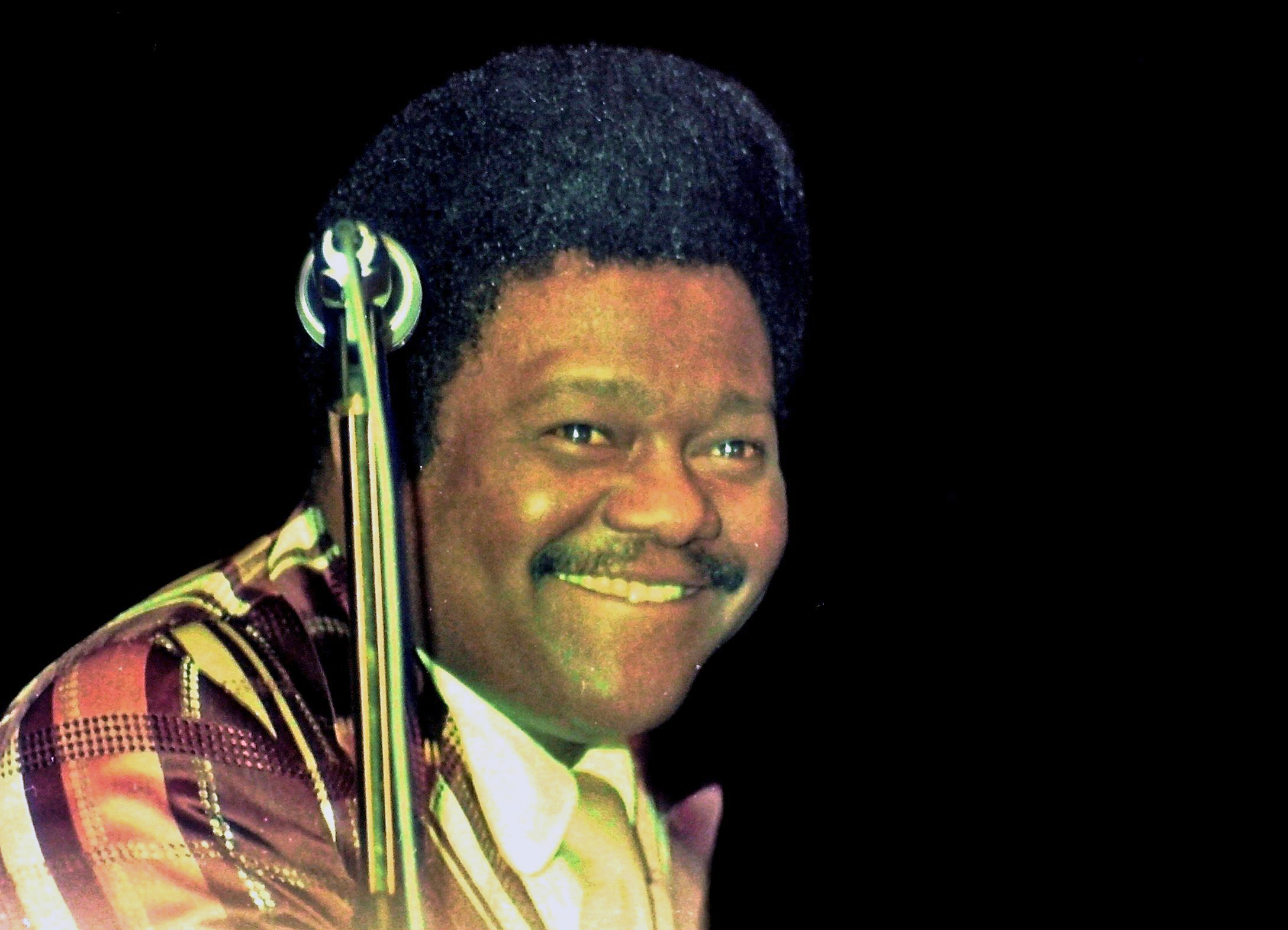 1977 -Fats Domino. I saw him 3 times. He is always smiling. He is a real smart man. In concert in West Germany.